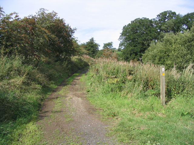 Looking West-northwest down the Roman Road Dere Street. This forms part of St Cuthberts Way, a 62 mile long distance route from Melrose in the Scottish Borders to Lindisfarne (Holy Island) in Northumberland.